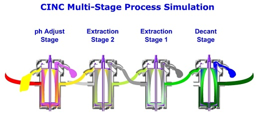 Multistage counter current and cross current extraction